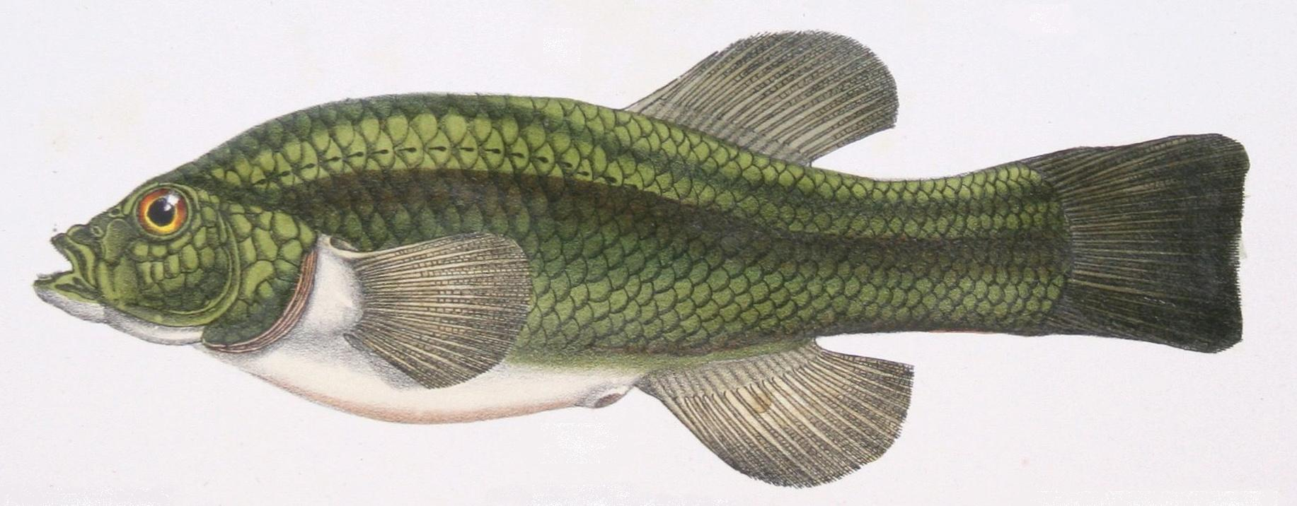 Orestias tschudii